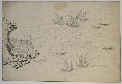 Facsimile of original Chinese drawings found in the House of Kwan, the commander-in-chief of the Anunghoy batteries, Bocca Tigris, China, after their capture by the English on 26 February 1841. The pictures represent the expected attack by the English.